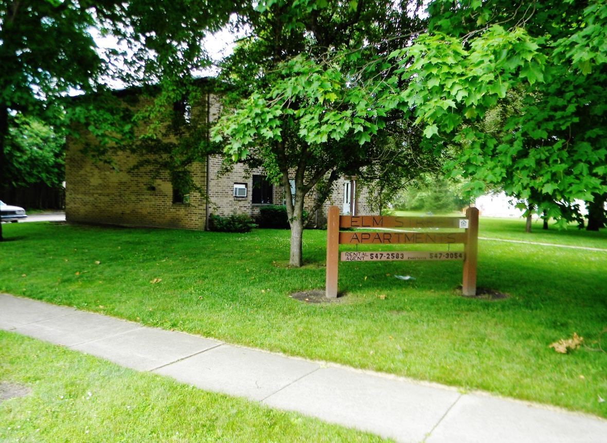 Location of the former South Ward School in Cresco, Iowa. According to the local chamber of commerce, there has not been a school at the listed address in a number of years. The school building has been torn down and replaced with this apartment building.